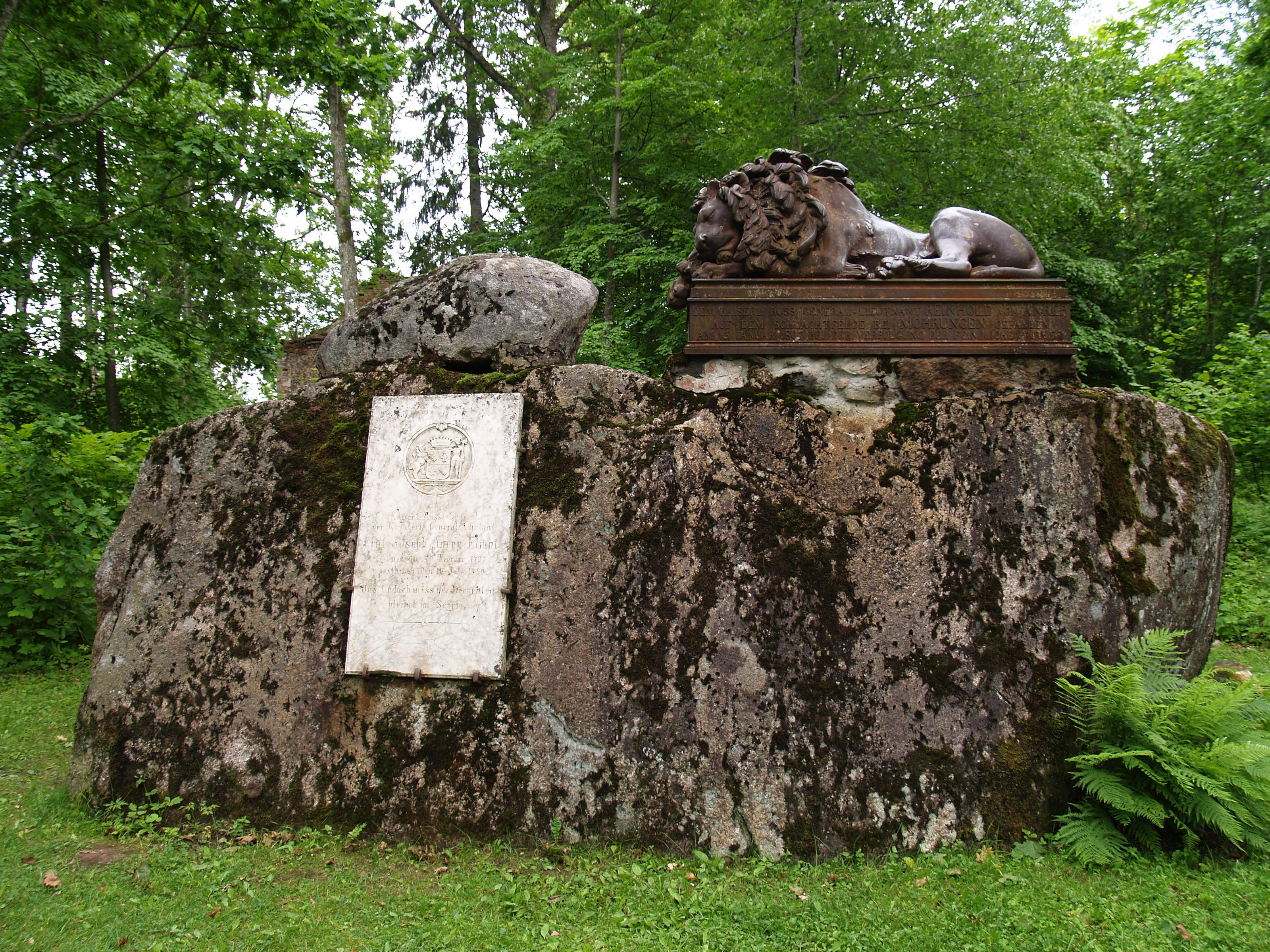 Lion of Anrep. Lion, situated on a boulder, was created by Christian Daniel Rauch.Lion is situated near to the village Kärstna in Viljandi County, Estonia.